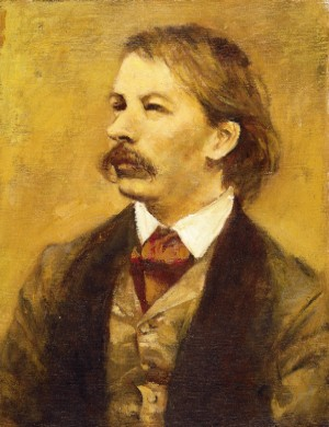 The pianist Carl Tausig